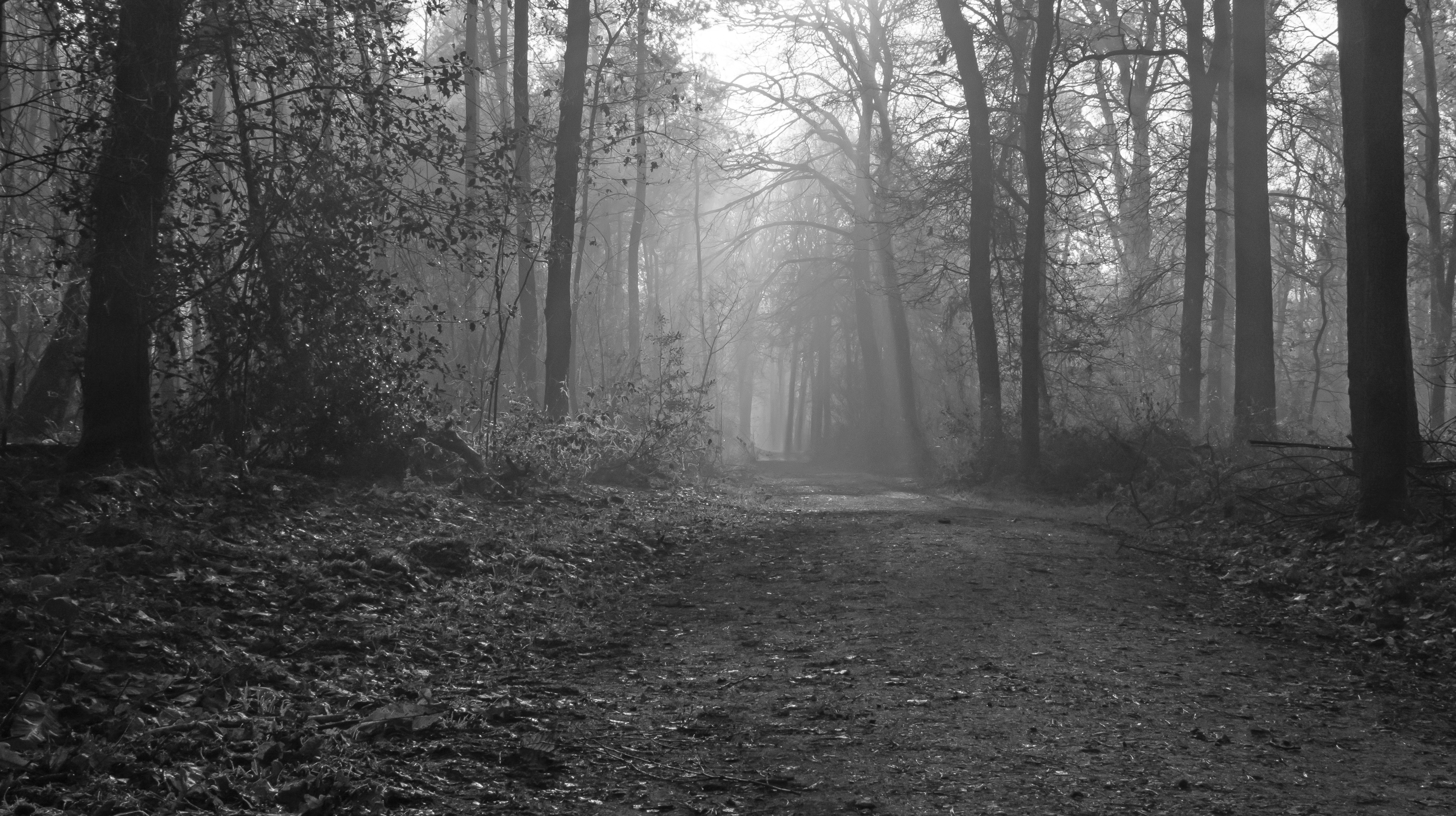 Barchem, forest path near the Kalenberg